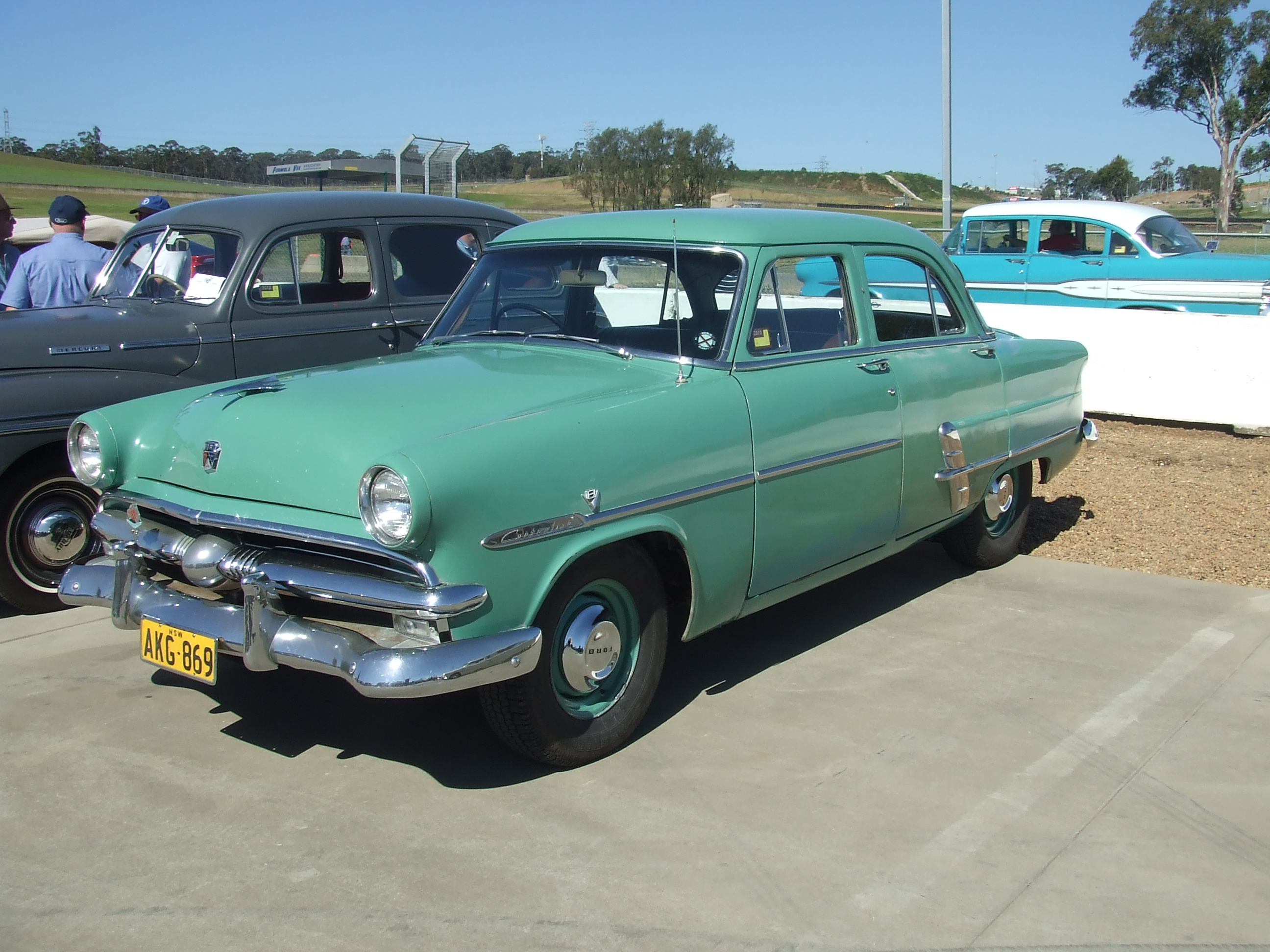 Ford Customline